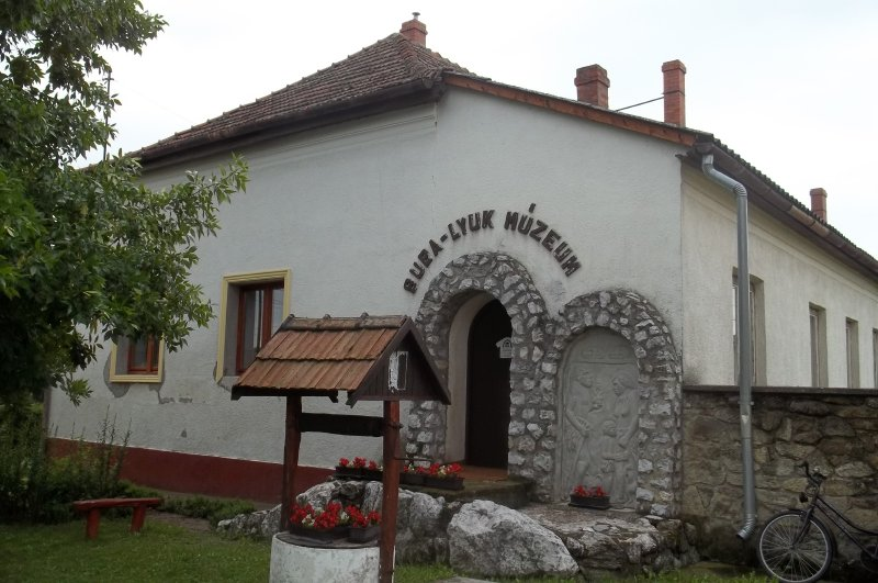 The Suba-lyuk Cave Museum in Cserépfalu